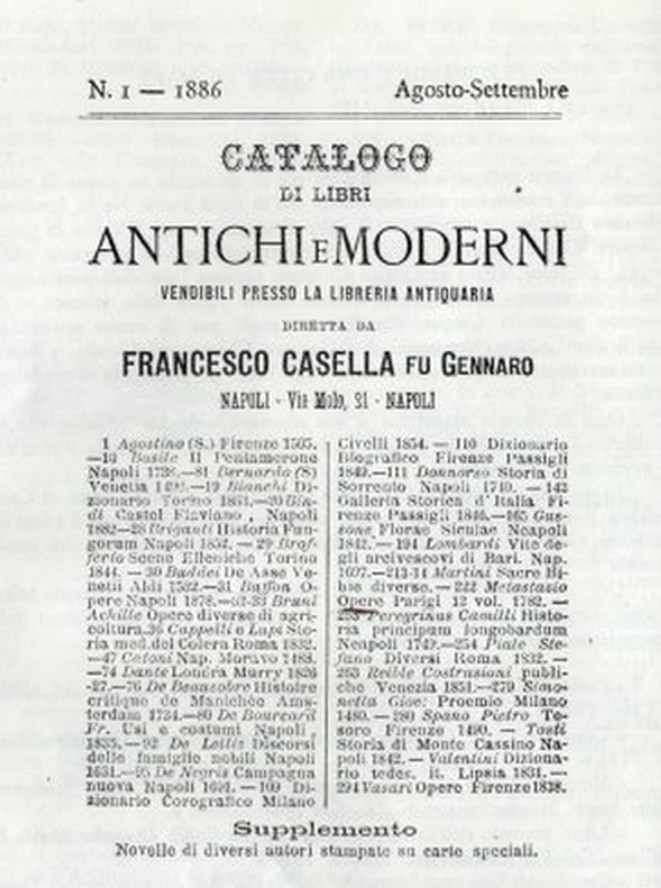 First catalogue 1886